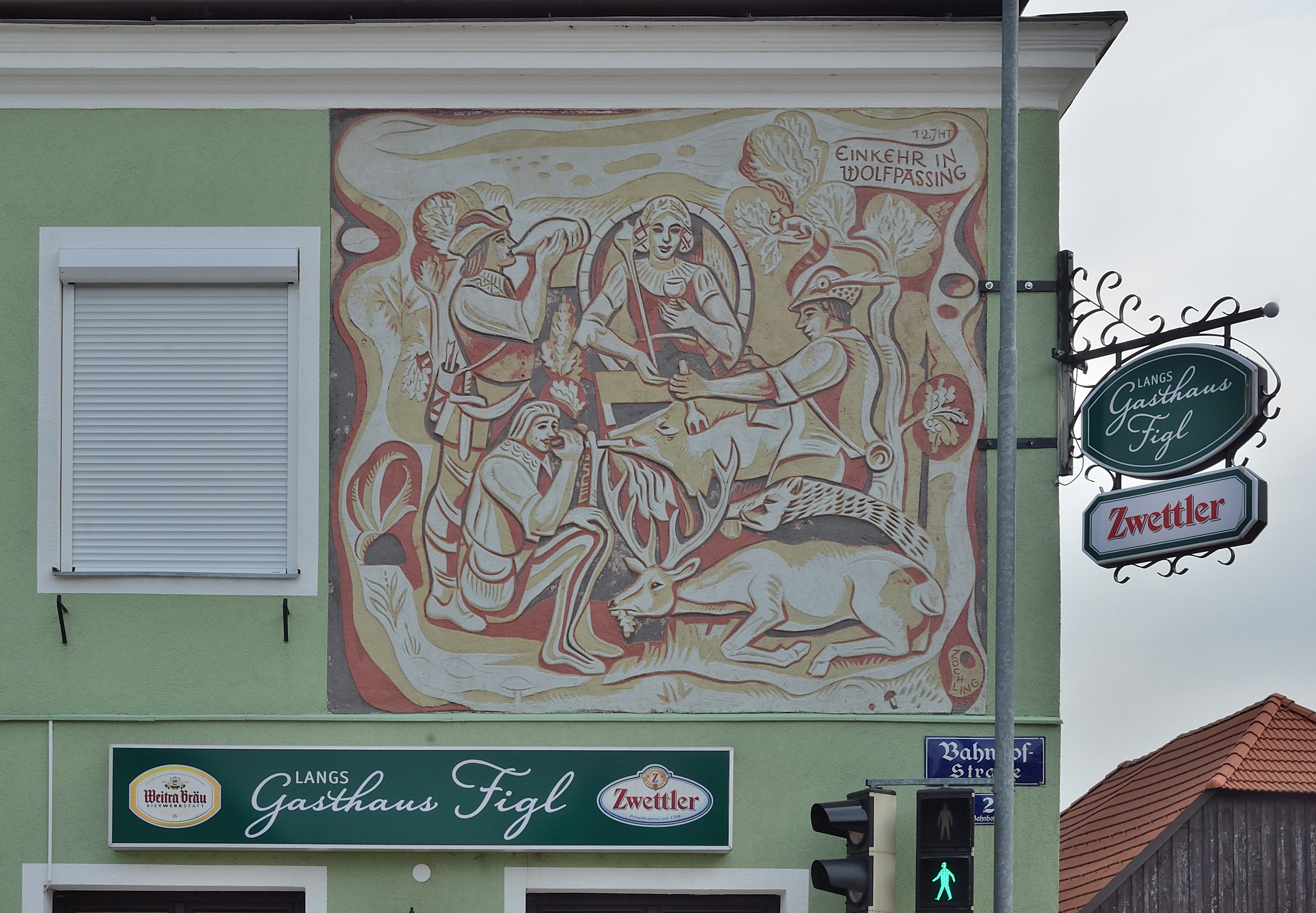 The sgraffito Einkehr in Wolfpassing (rest in Wolfpassing) was created by Sepp Zöchling in 1959. It is located at Gasthaus Figl (a local restaurant) in the Bahnhofstraße.